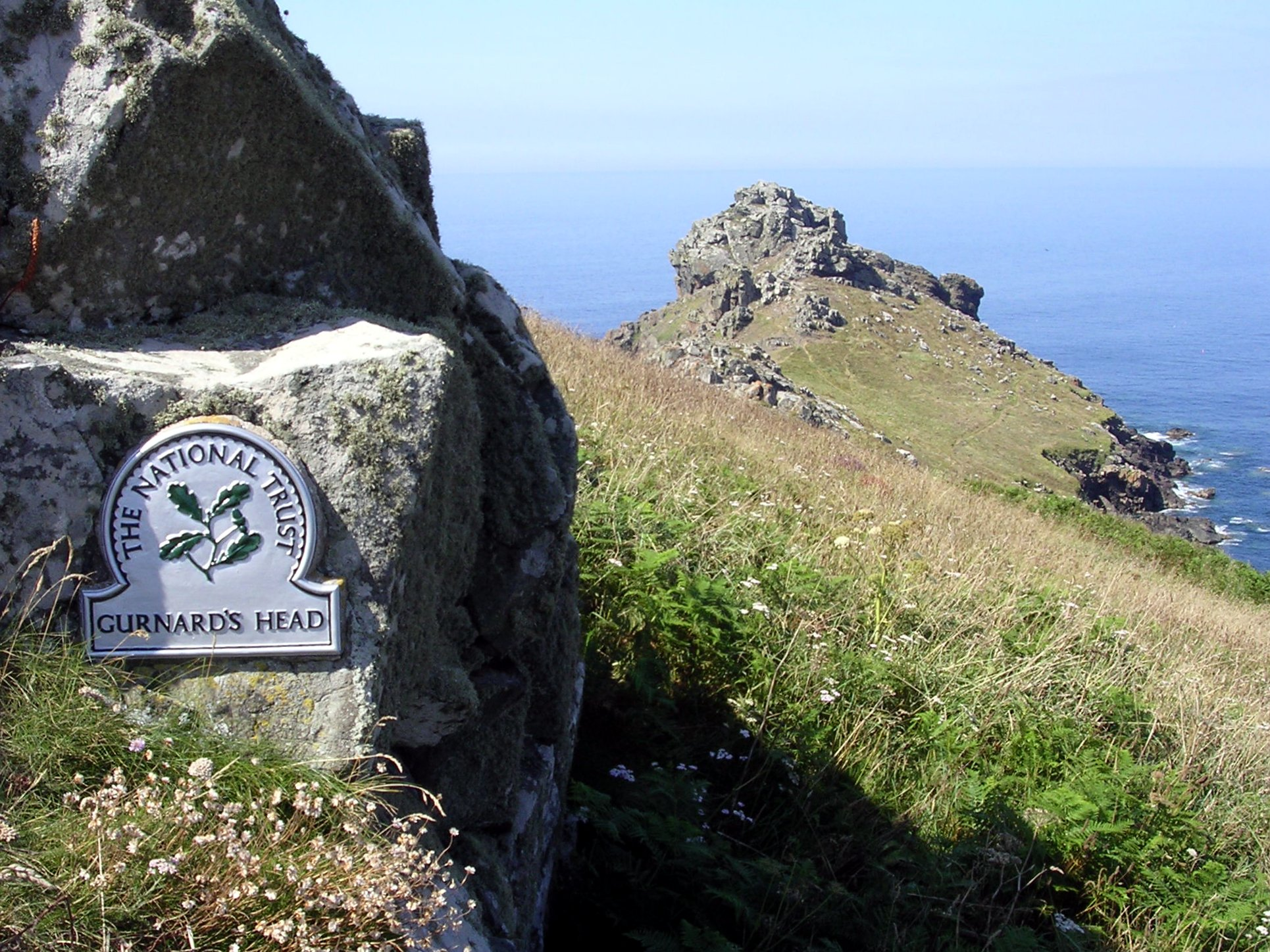 Gurnard's Head promontory and National Trust plaque, Cornwall